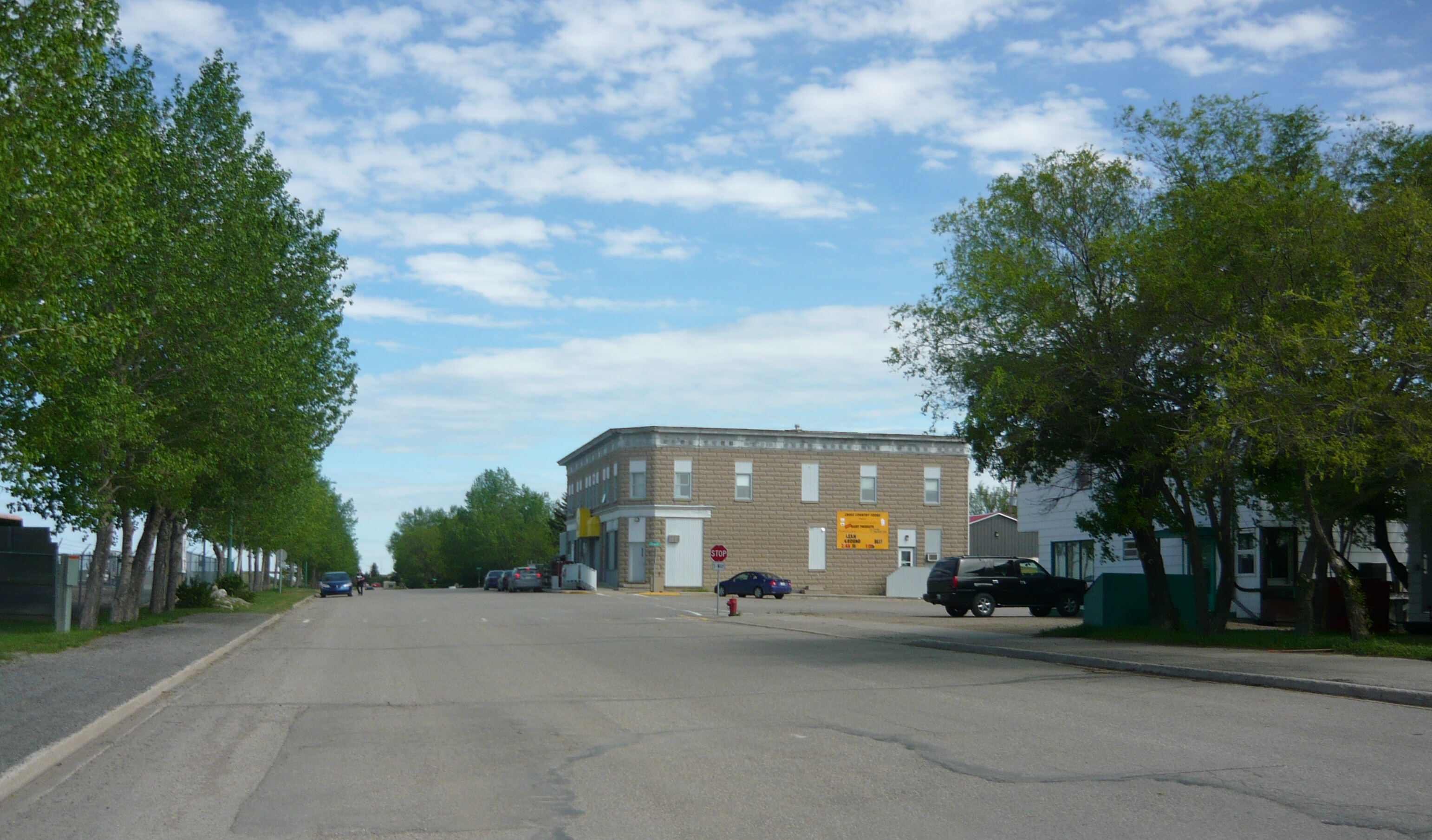 Town of Balgonie, Saskatchewan, Canada. Photo taken looking eastward along Railway Street toward its intersection with Main Street.